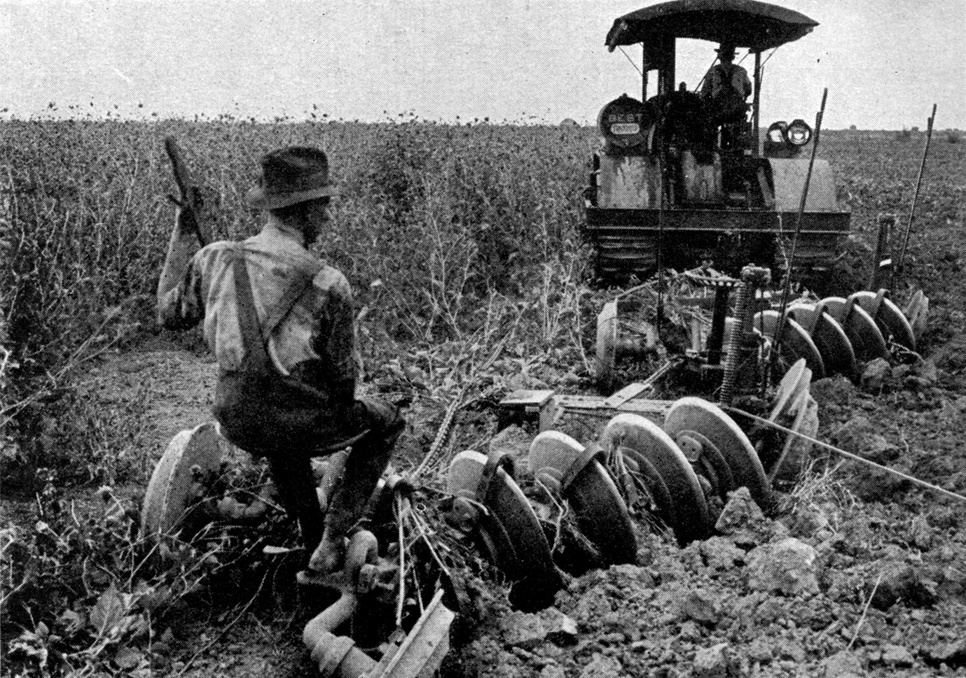 Plowing an Alfalfa field by tractor, US